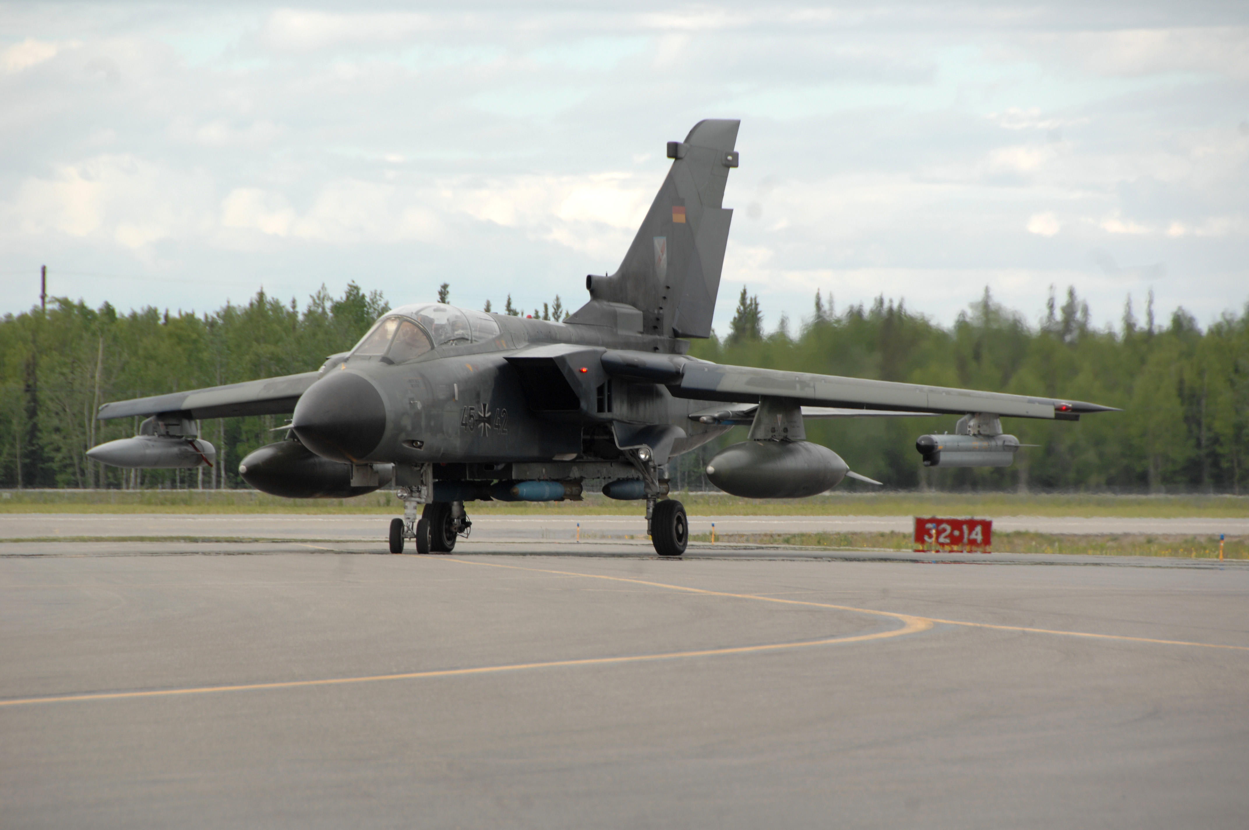 A German Luftwaffe (Air Force) Tornado IDS (s/n 45+42) taxis down the flightline at Eielson Air Force Base, Alasko (USA), during the "Red Flag-Alaska 08-3" exercise on 12 June 2008. The Tornado was from Jagdbombergeschwader 31 (JaboG 31) "Boelcke", based at Nörvenich, Northrhine-Westphalia, Germany.